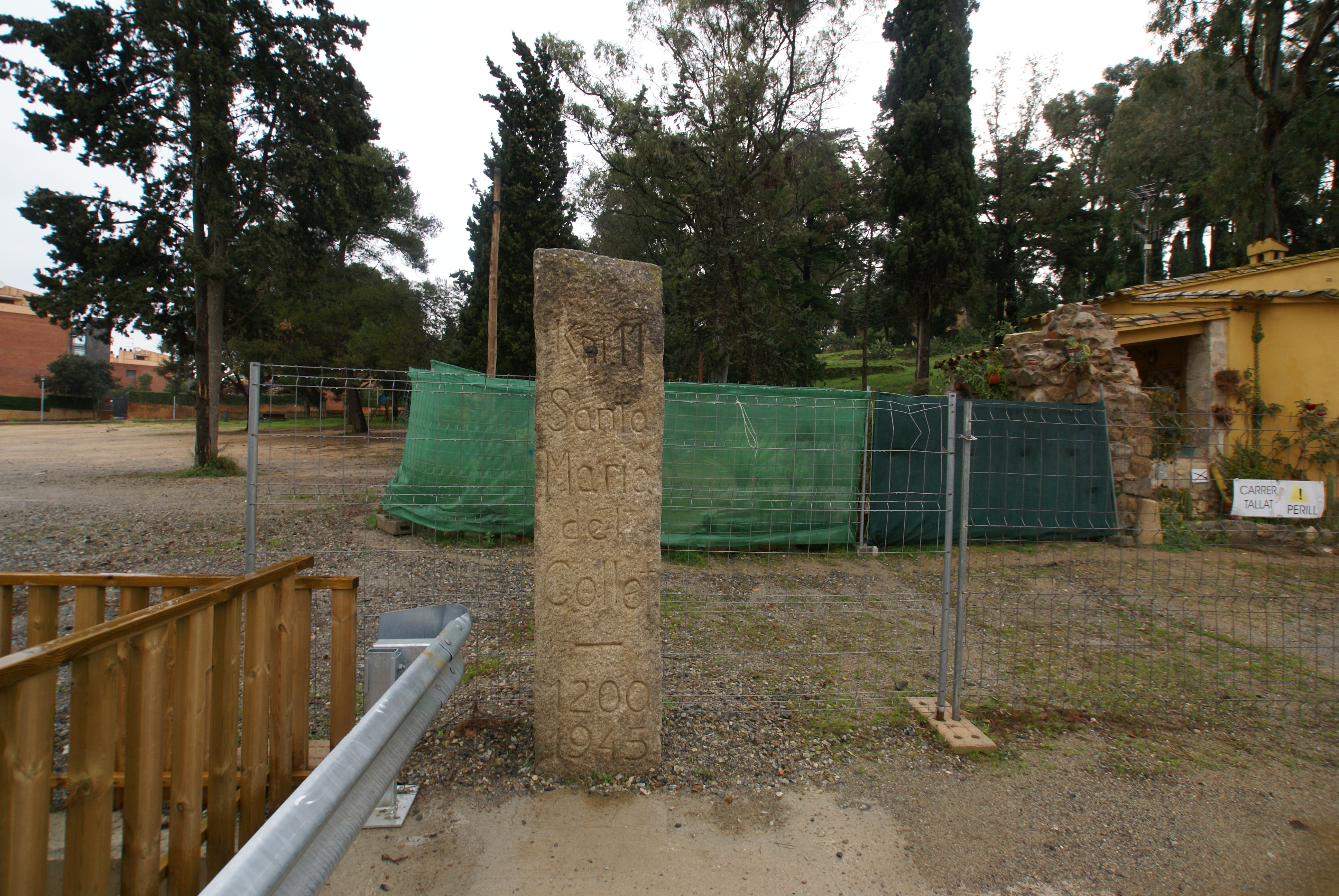 Calonge, Catalonia: Milestone at the border of the Rec Madral